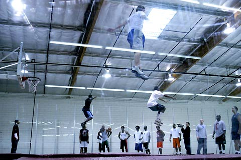 This picture was taken during Slamball training camp 2003 in Los Angeles.